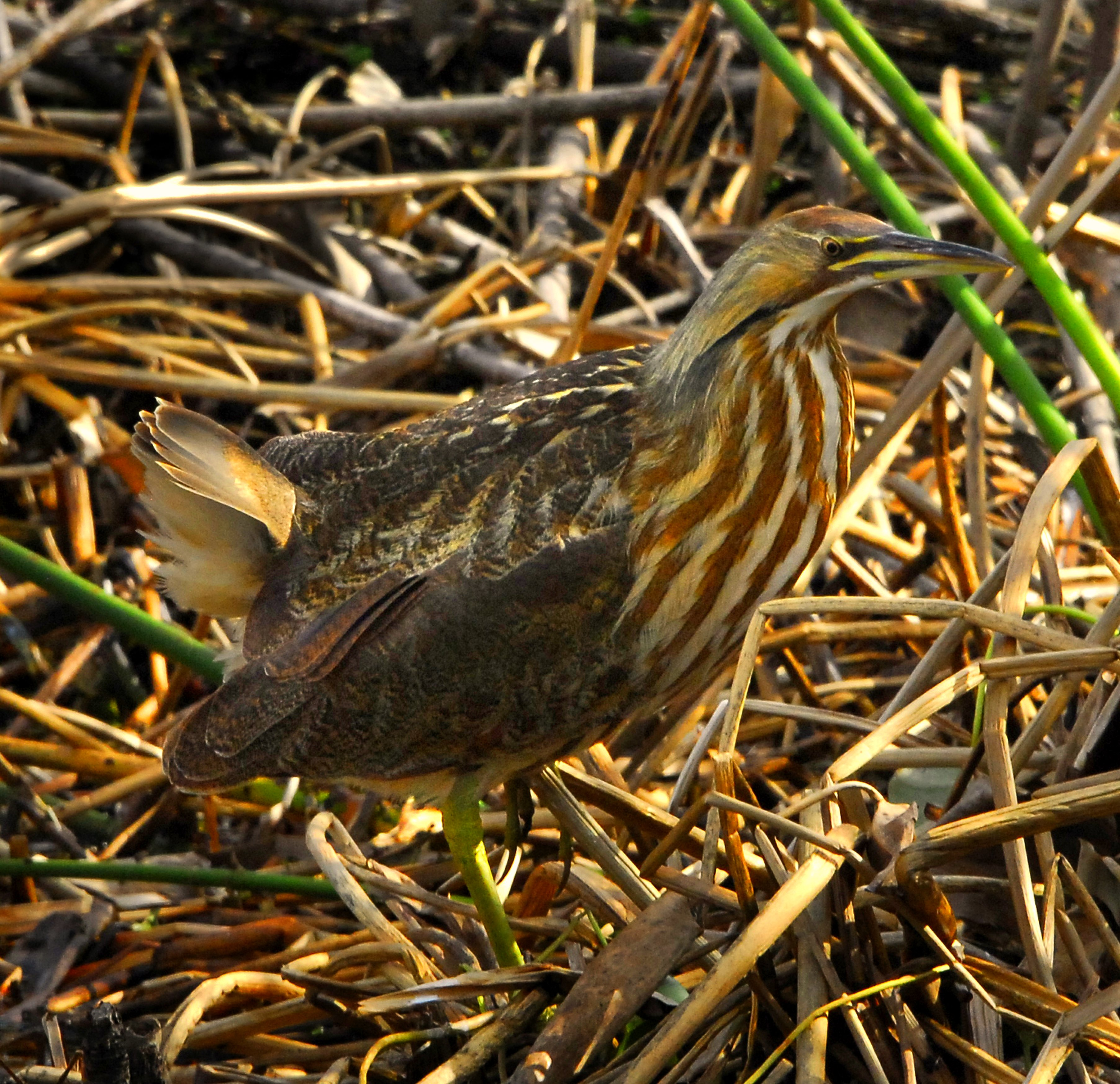 American Bittern at Lake Woodruff